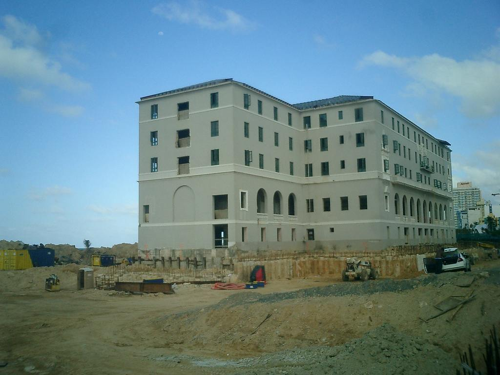 The Condado Vandebilt Hotel under construction in 2006